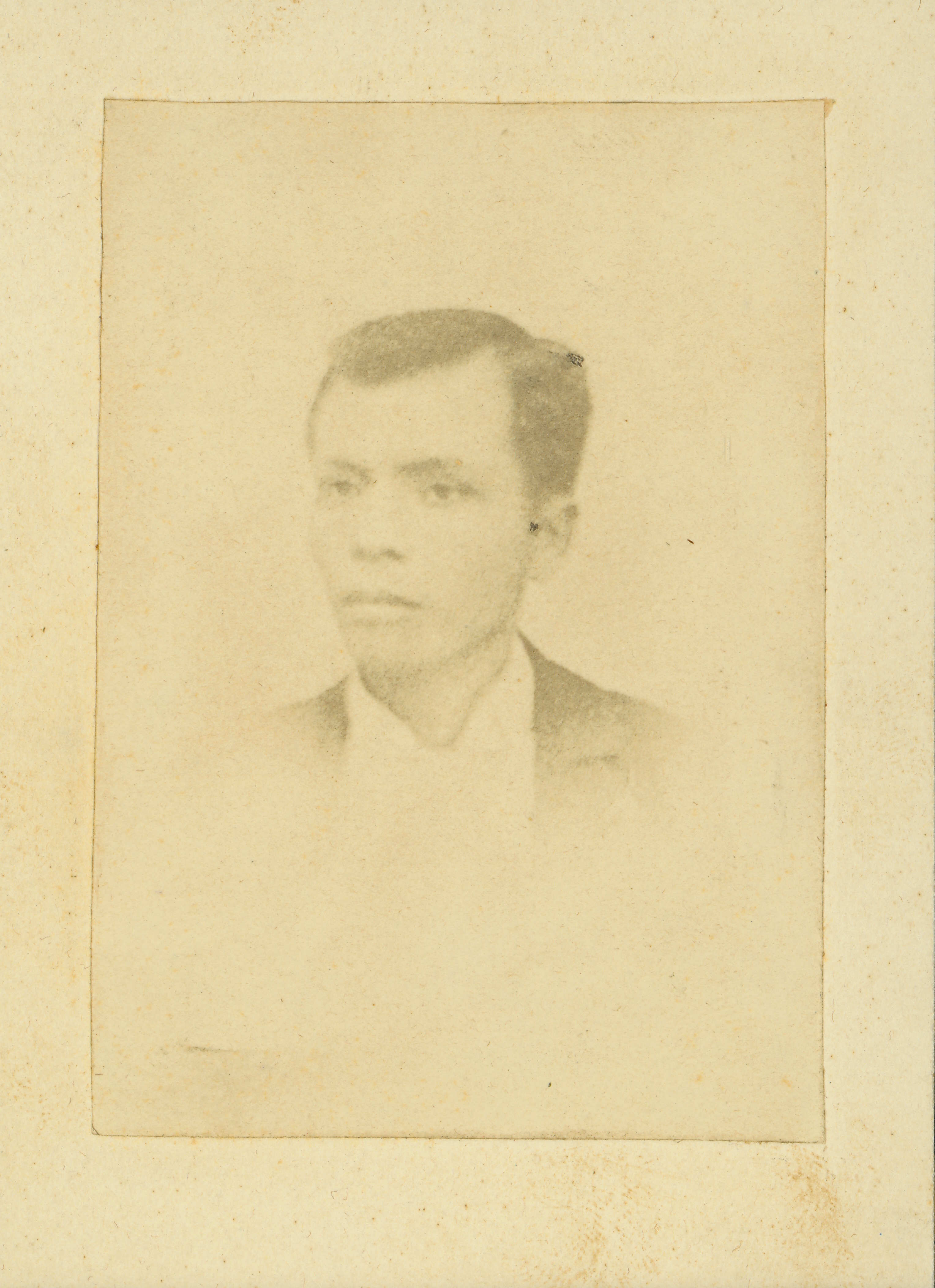 Only surviving photograph of Andres Bonifacio, founder of the Philippine revolutionary society Katipunan.